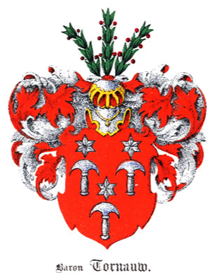 Coat of Arms of Tornauw family